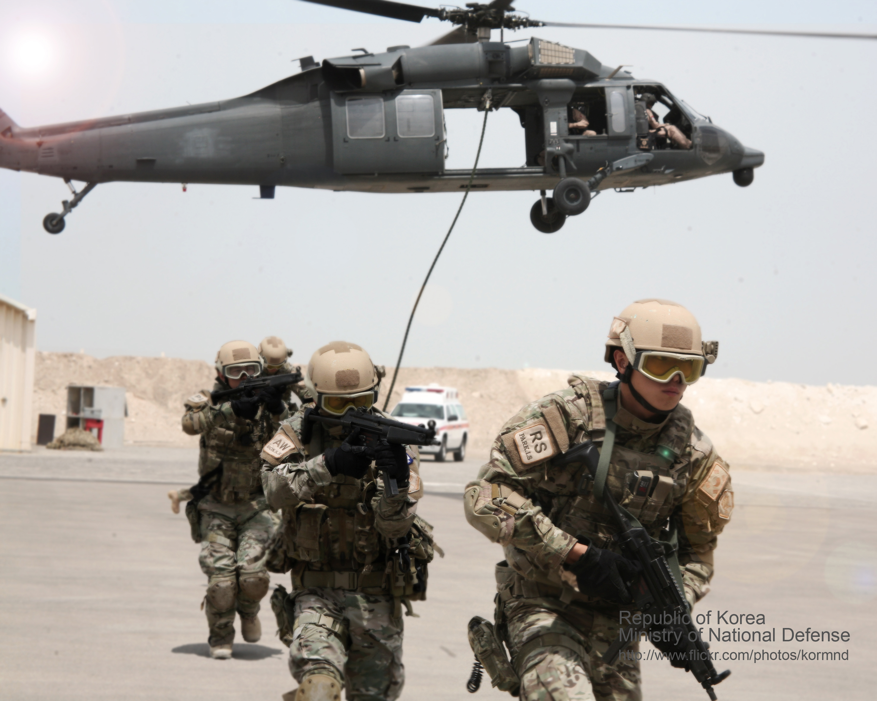 Republic of Korea The Akh Unit in UAE